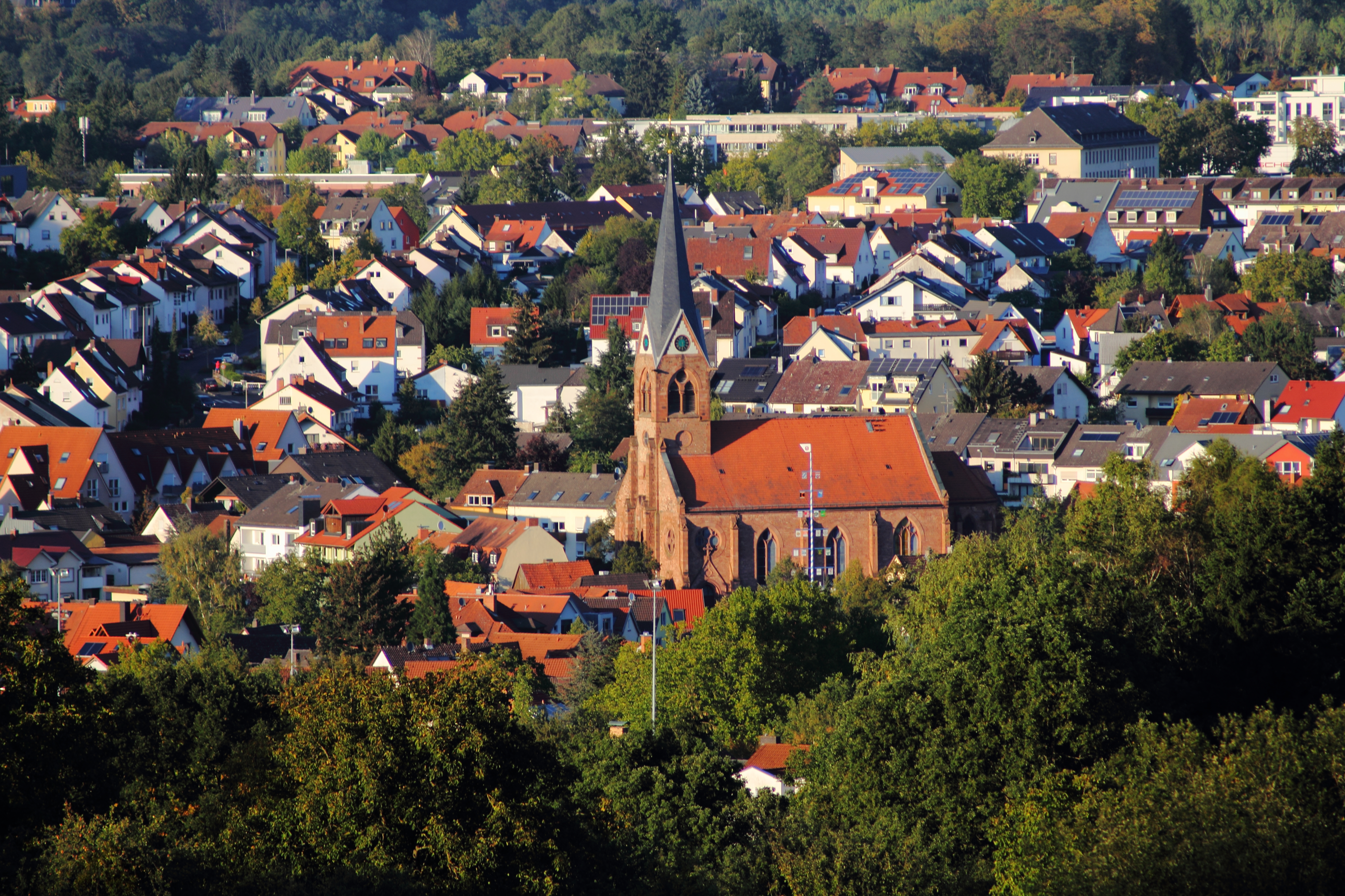 Aschaffenburg: View from Erbig hill to the village centre of Schweinheim municipal district